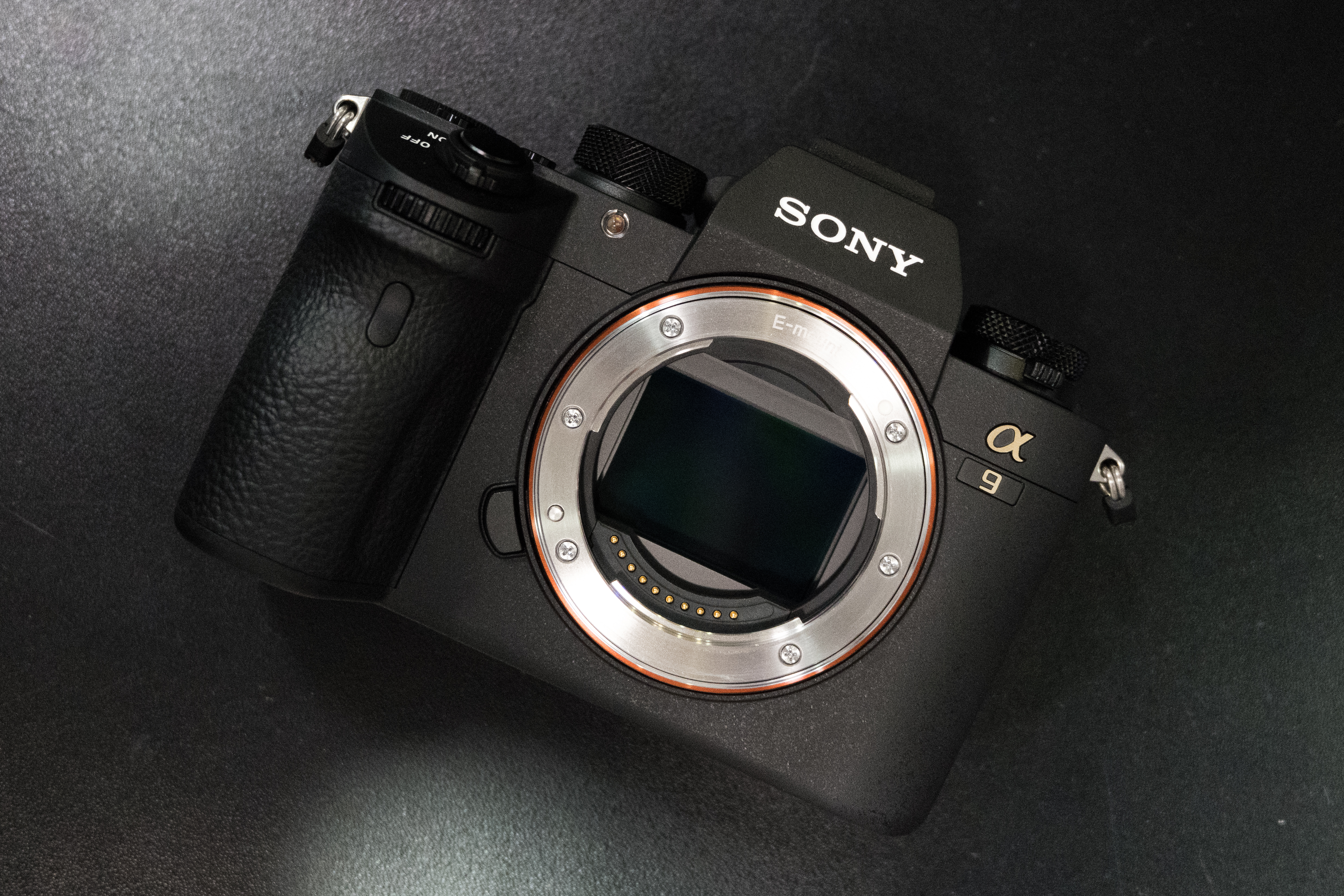 View of the Sony alpha9